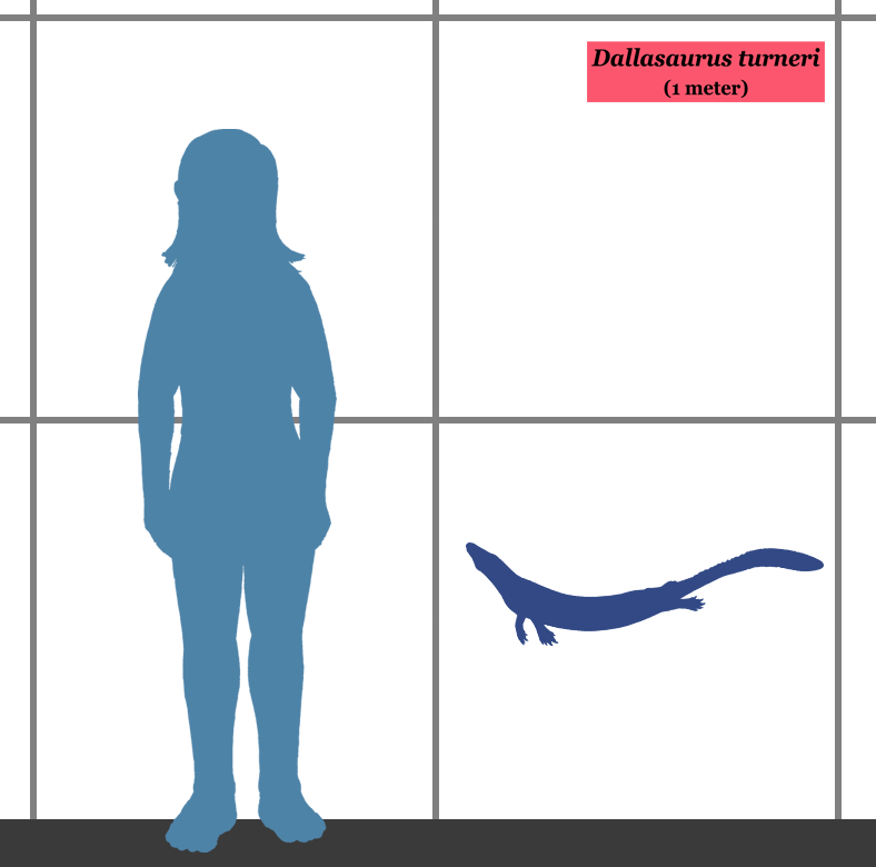 Size comparison between the Mosasauroid Dallasaurus turneri (1 meter long) and a human.